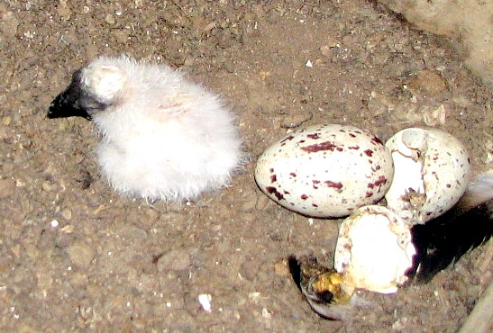 Just hatched on 5/29/2007